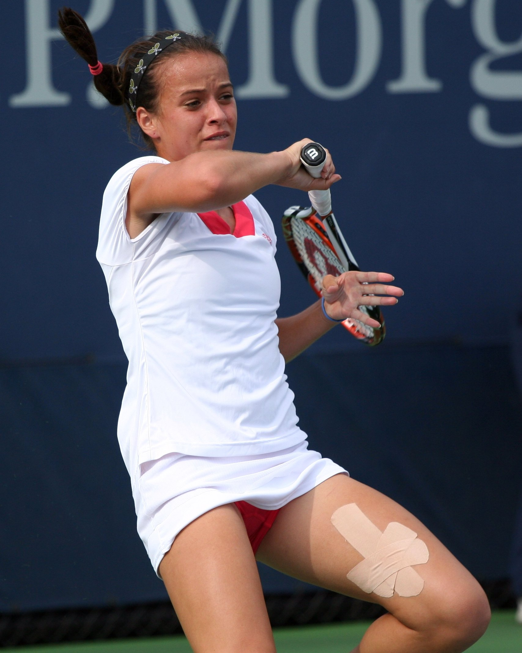 U.S. Open Juniors, Monday, Sept. 7, 2009